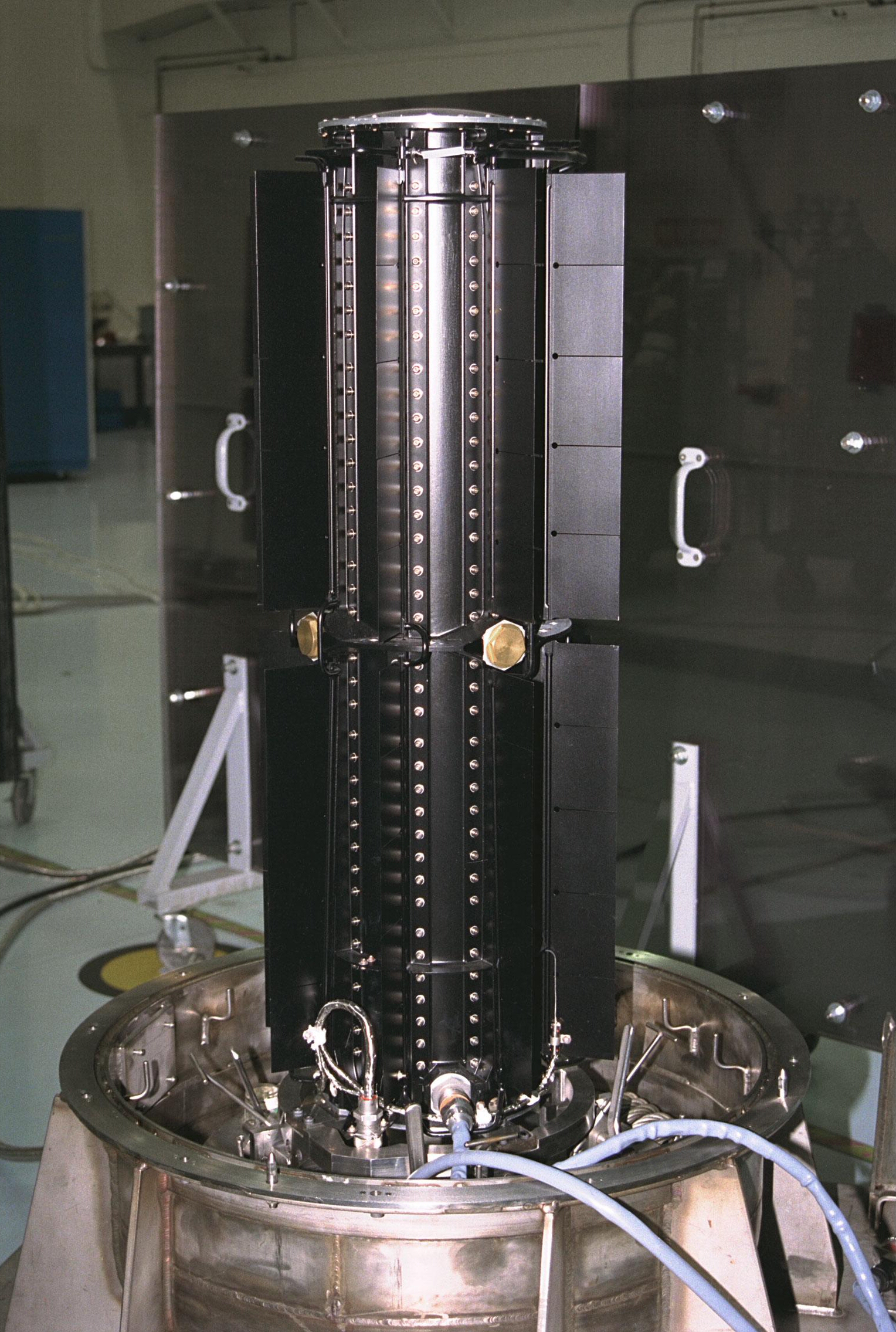 Cassini's Radioisotope Thermoelectric Generator